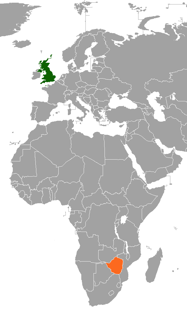 Locator for the UK and Zimbabwe.